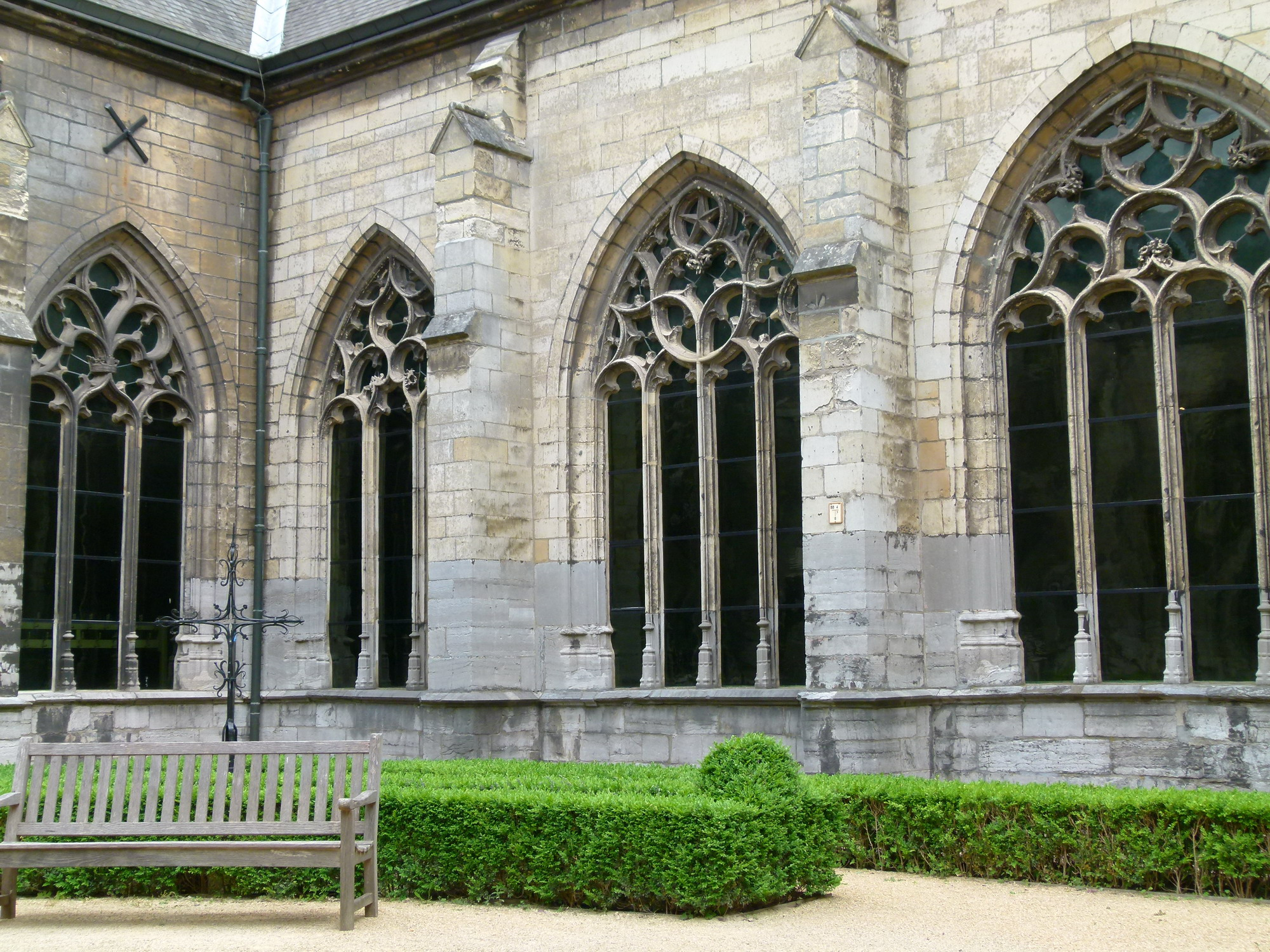 Basilica of Our Lady, Maastricht, the Netherlands. Late Gothic cloisters (finished 1559).